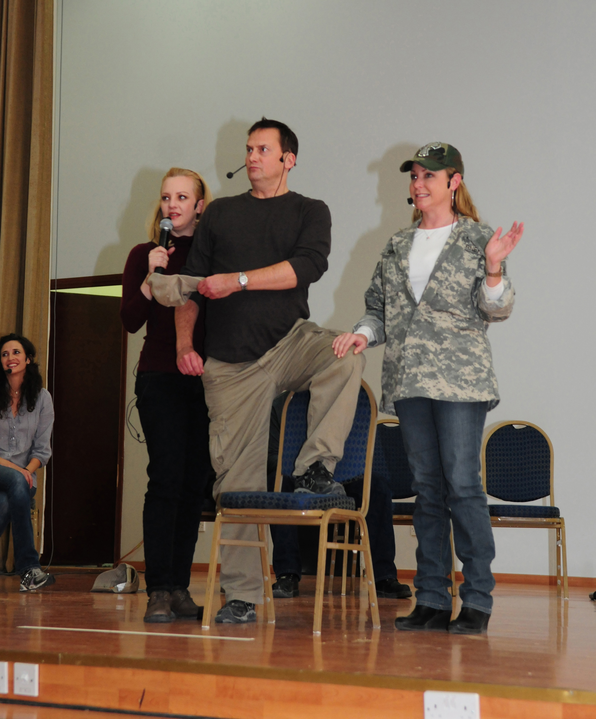 Comedians (from left to right) Wendy McLendon, Michael Hitchcock and Karri Turner perform a mock American Forces Network holiday greeting during a show for military servicemembers at an air base in Southwest Asia Jan. 1, 2010. The improv comedy show, hosted by Stars and Stripes, included a cast of seven comics who have been featured on such shows as "Saturday Night Live", "Monk", "Comedy Central", "Reno 911", "Mad TV" and more. (U.S. Air Force photo/Staff Sgt. Lakisha A. Croley)